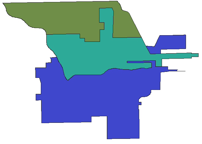 The boundaries of Chicago's 42nd ward in 1923 vs. 2019. Olive is 1923, Blue is 2019, and aquamarine is the overlap.